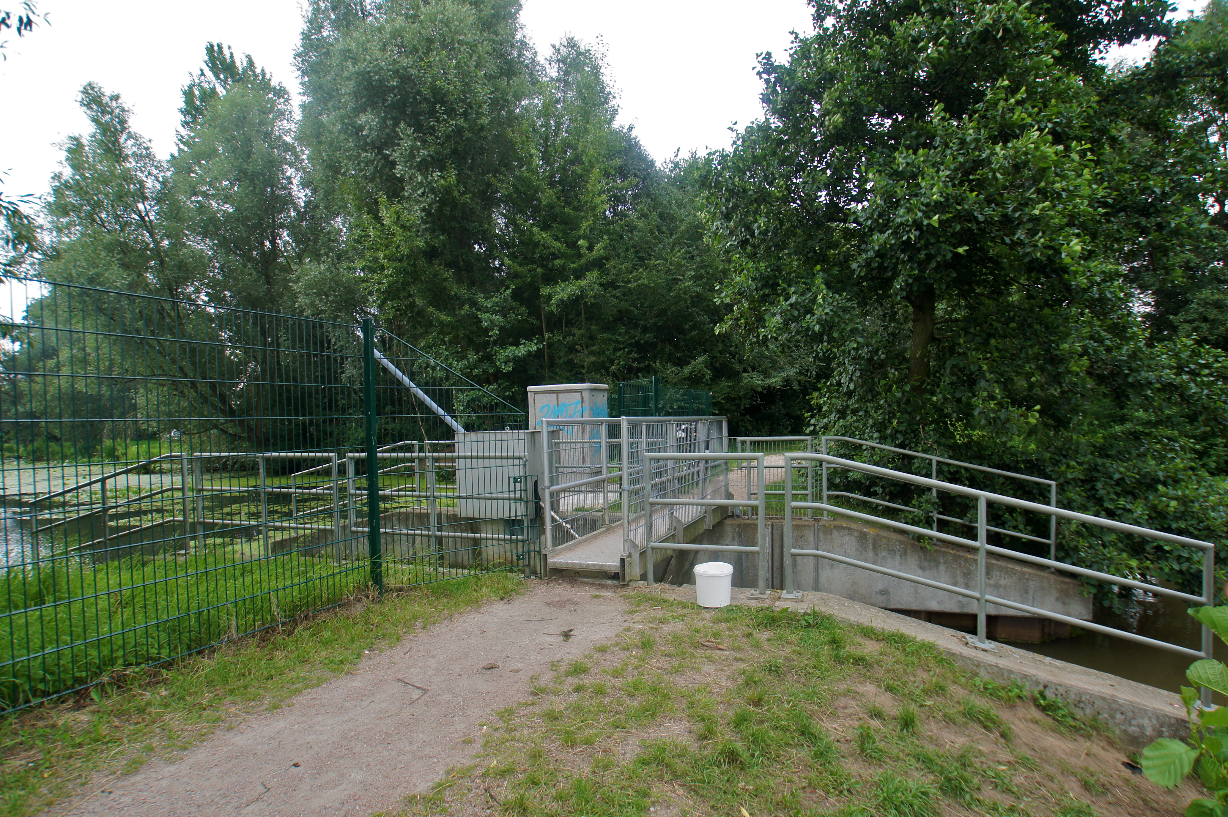 Hamburg (Wilhelmsburg), Germany: Lock between the Wilhelmsburger Dove Elbe and the Dove Elbe Wettern